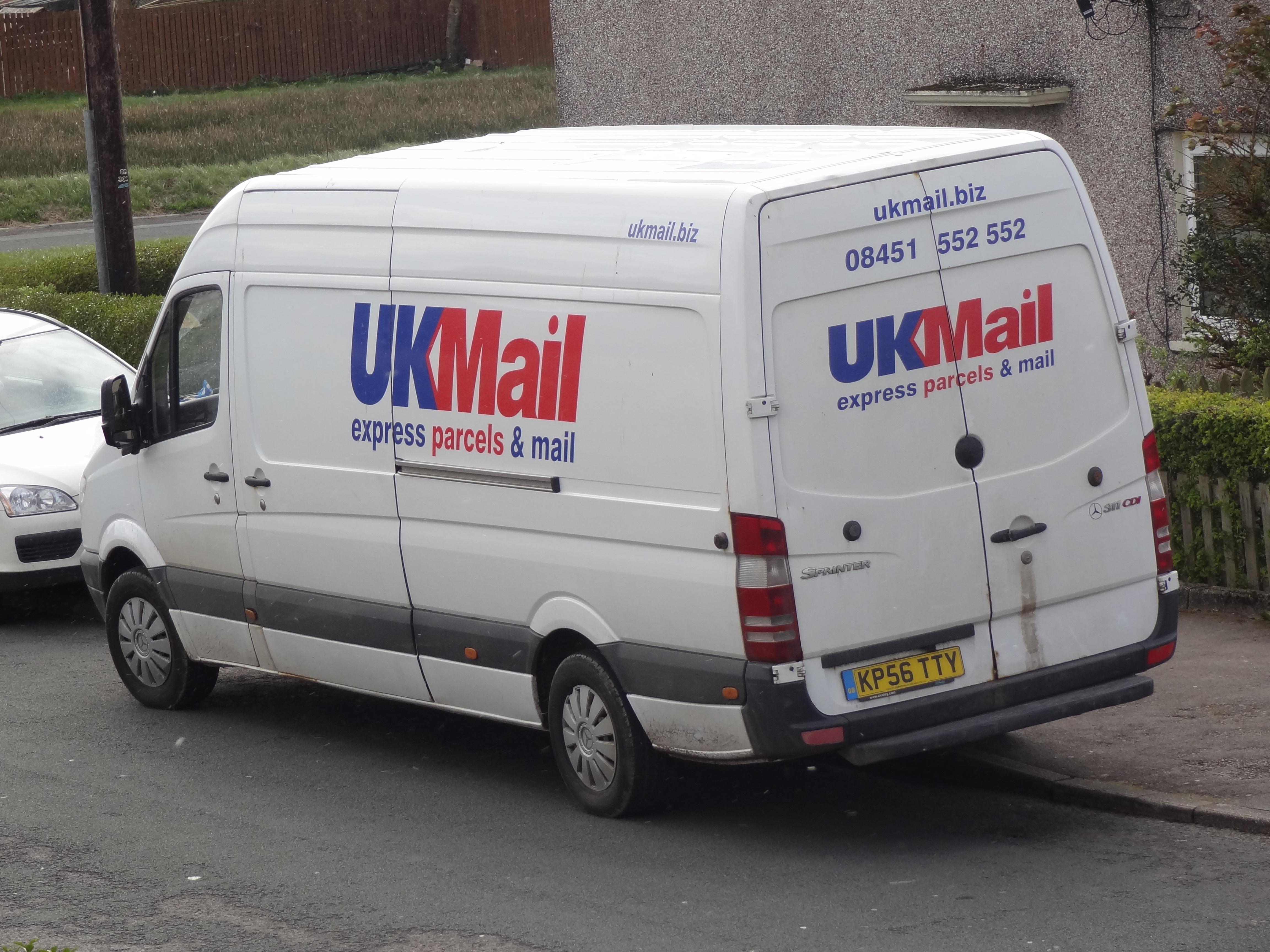 UK Mail van